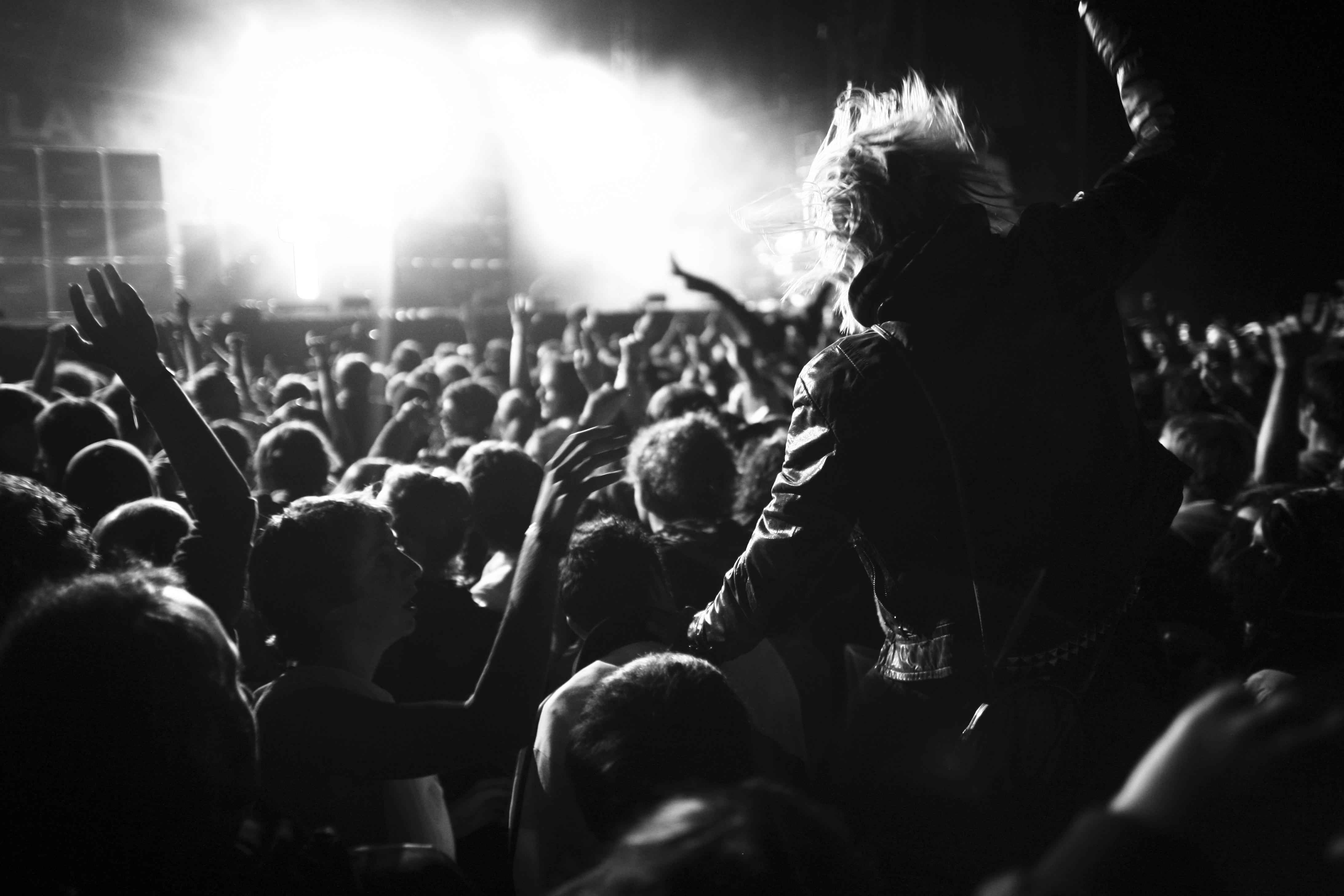 At a concert of Justice, a French electro house duo.